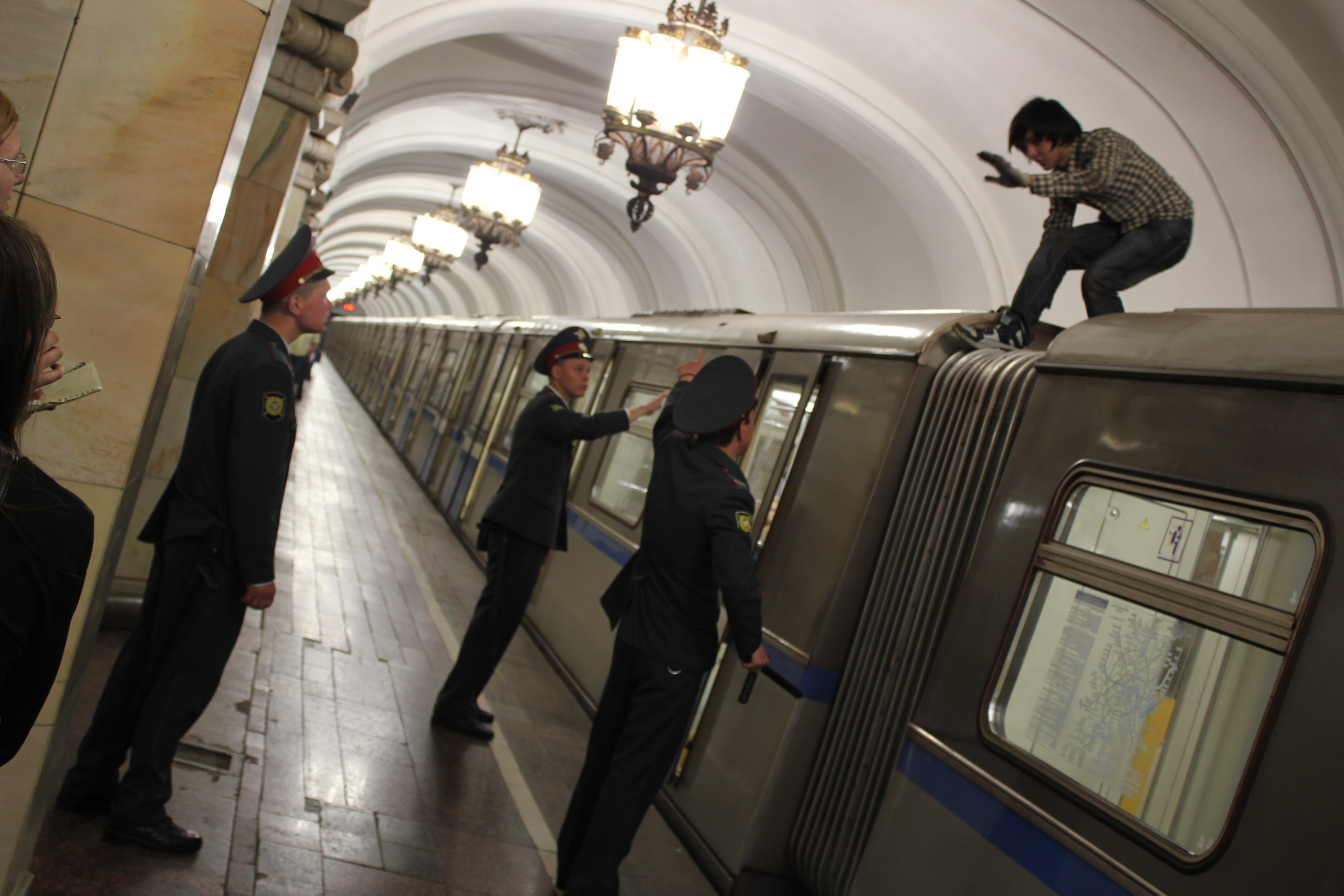 catch